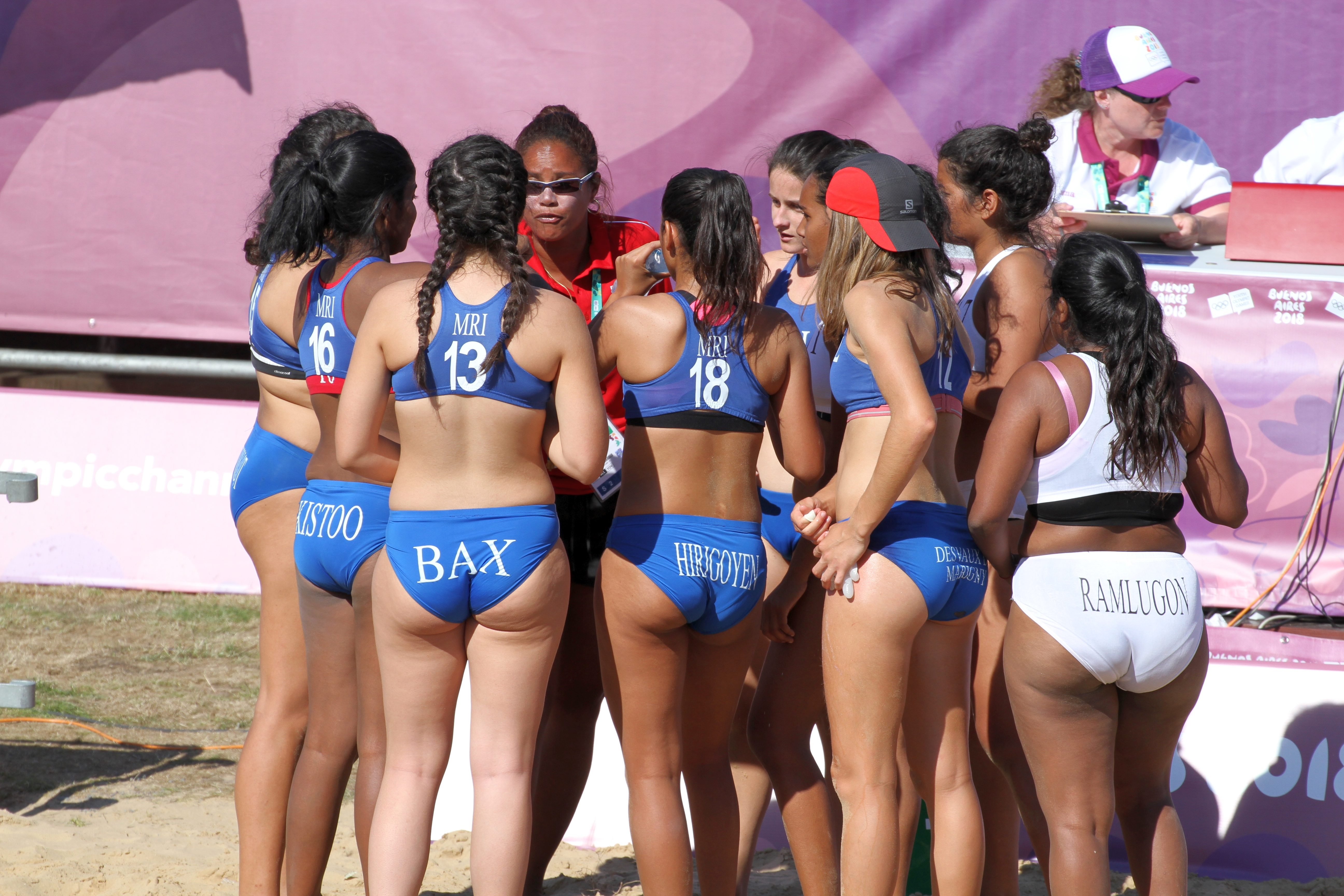 Beach handball at the 2018 Summer Youth Olympics at 9 October 2018 – Girls Preliminary Round Group A – Chinese Taipei-Mauritius 2:0